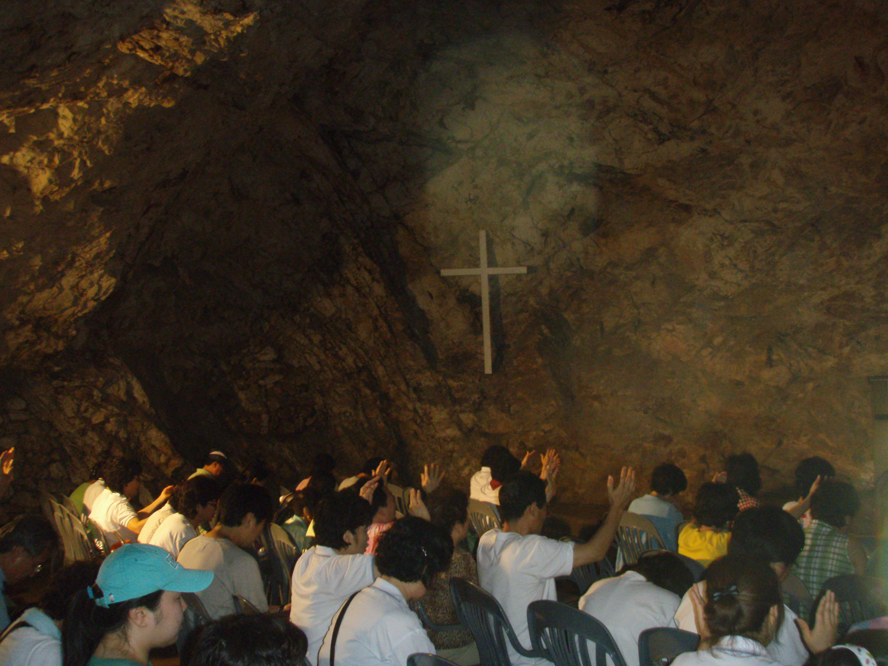 Group of people praying deep into the cave at Yeoju Pyungkang Jeil Conference Center near Yeoju, Gyeonggi-Do, South Korea. Picture taken by User:NHRHS2010